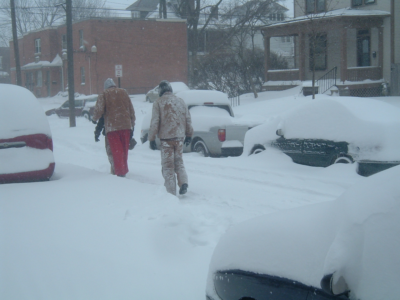 Columbus residents walk down Alden Ave. during the Blizzard of 2008.